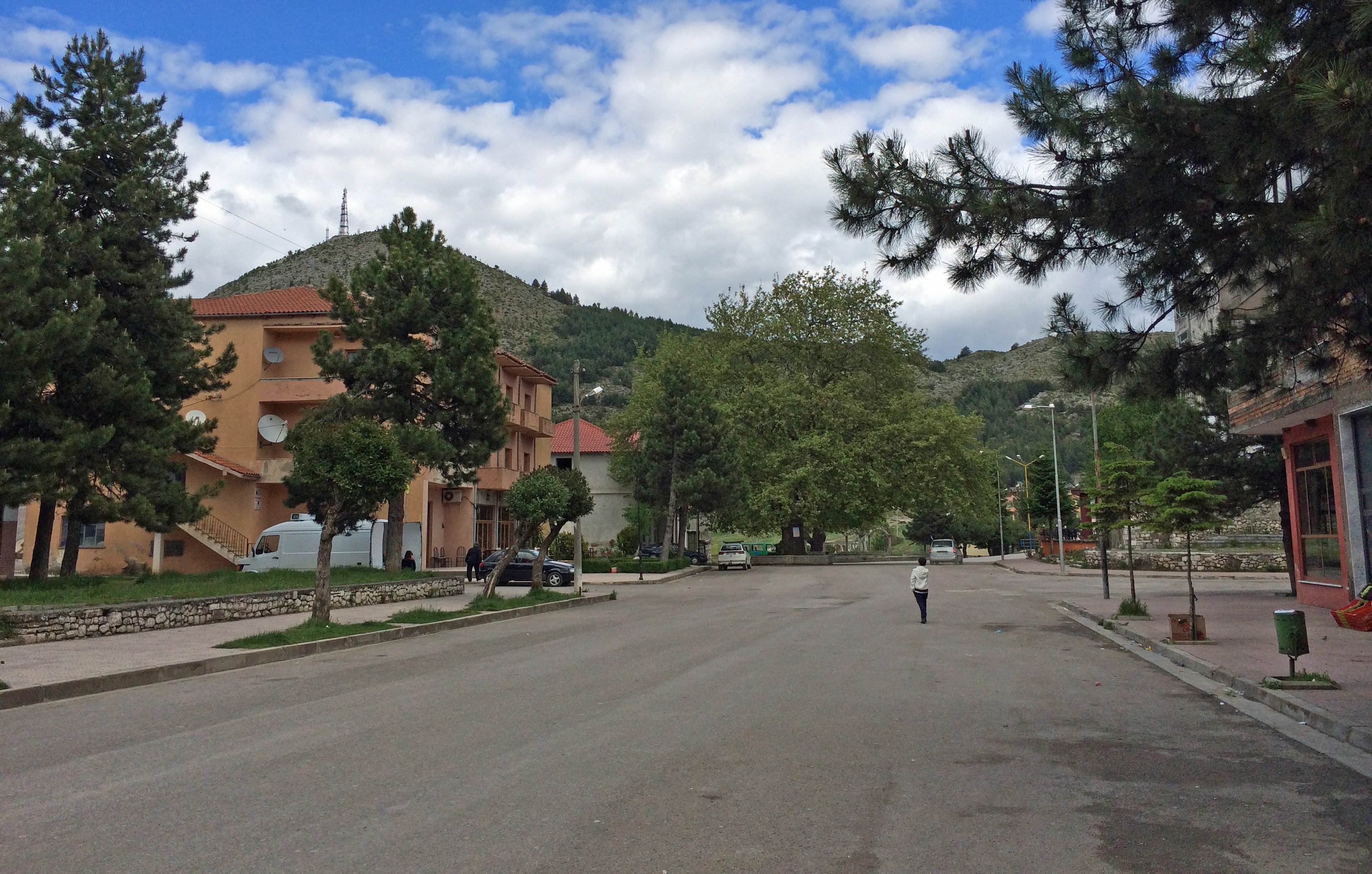 Plane tree of Leskovik, Southern Albania